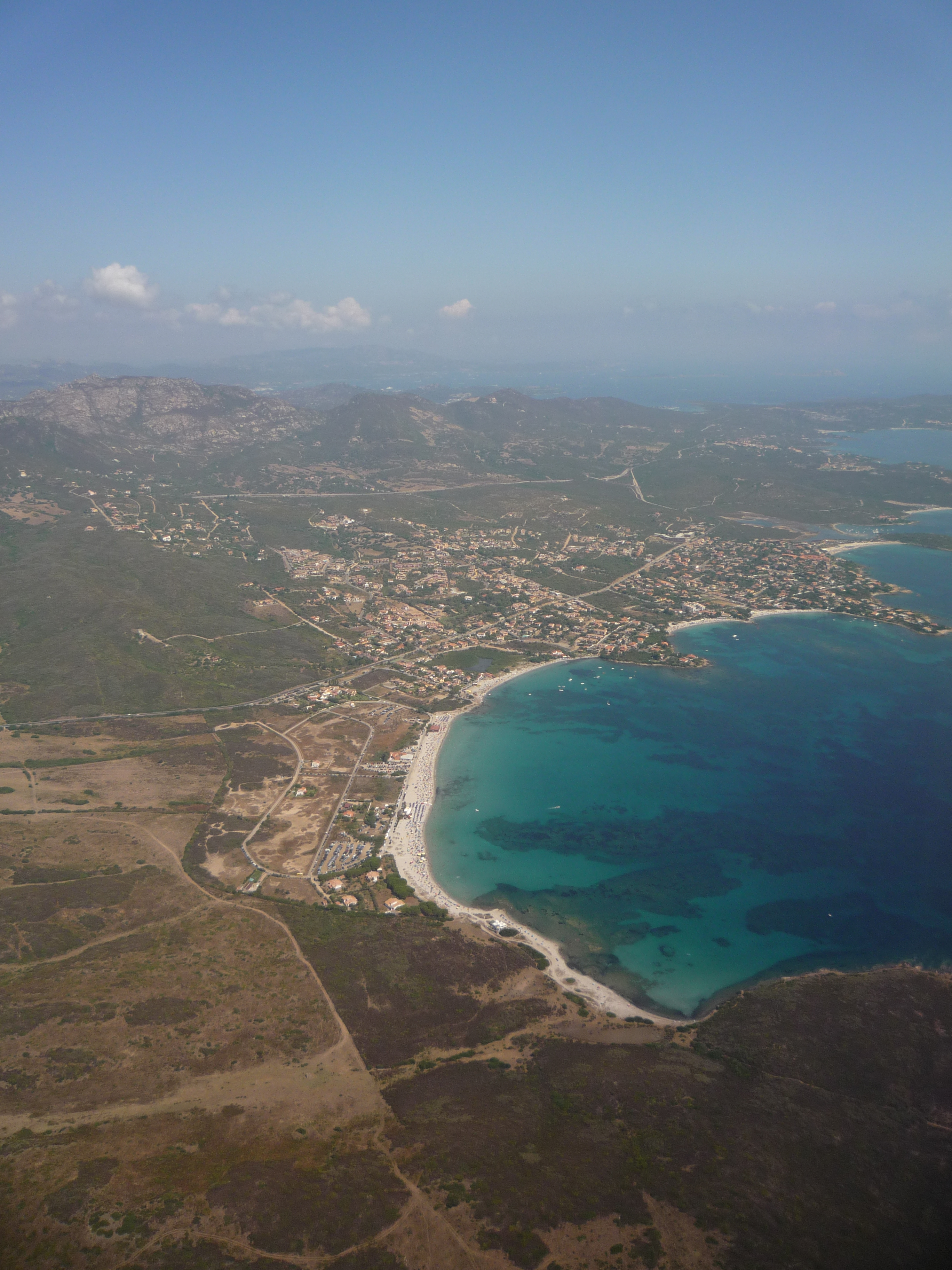 A beach in Olbia, Sardinia seen from a Norwegian-air